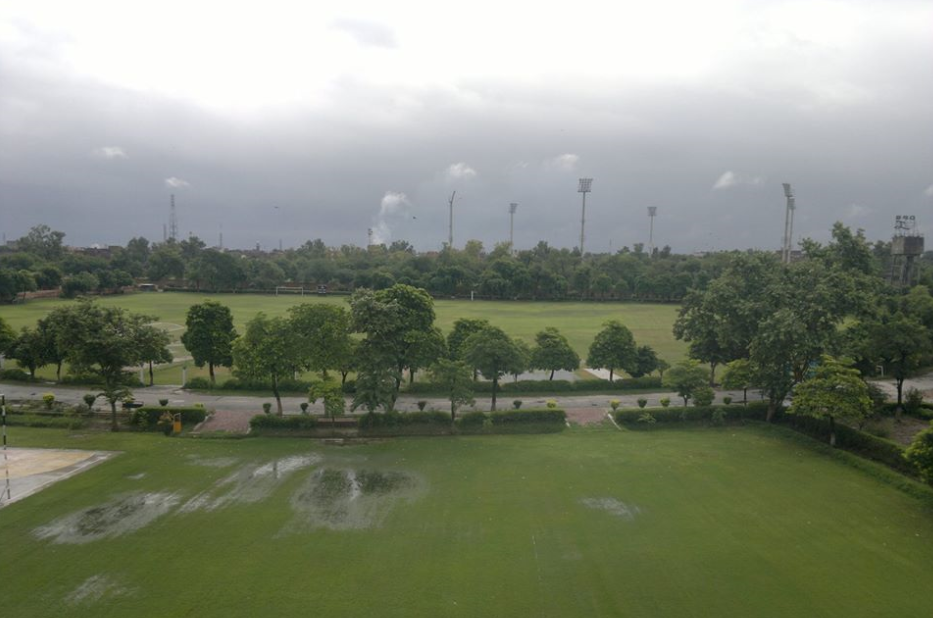 DPS&C FSD main ground